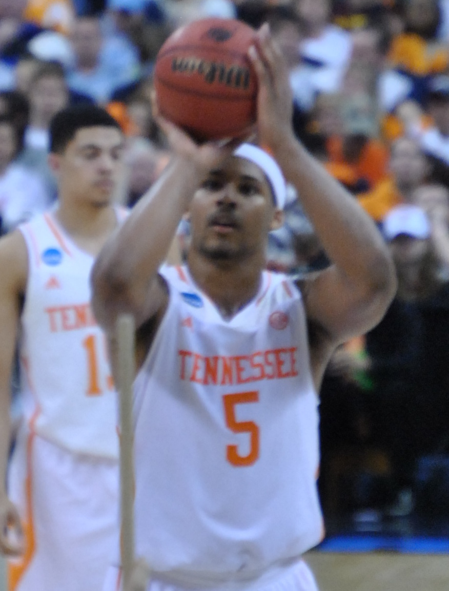 Jarnell Stokes at the line for the Vols